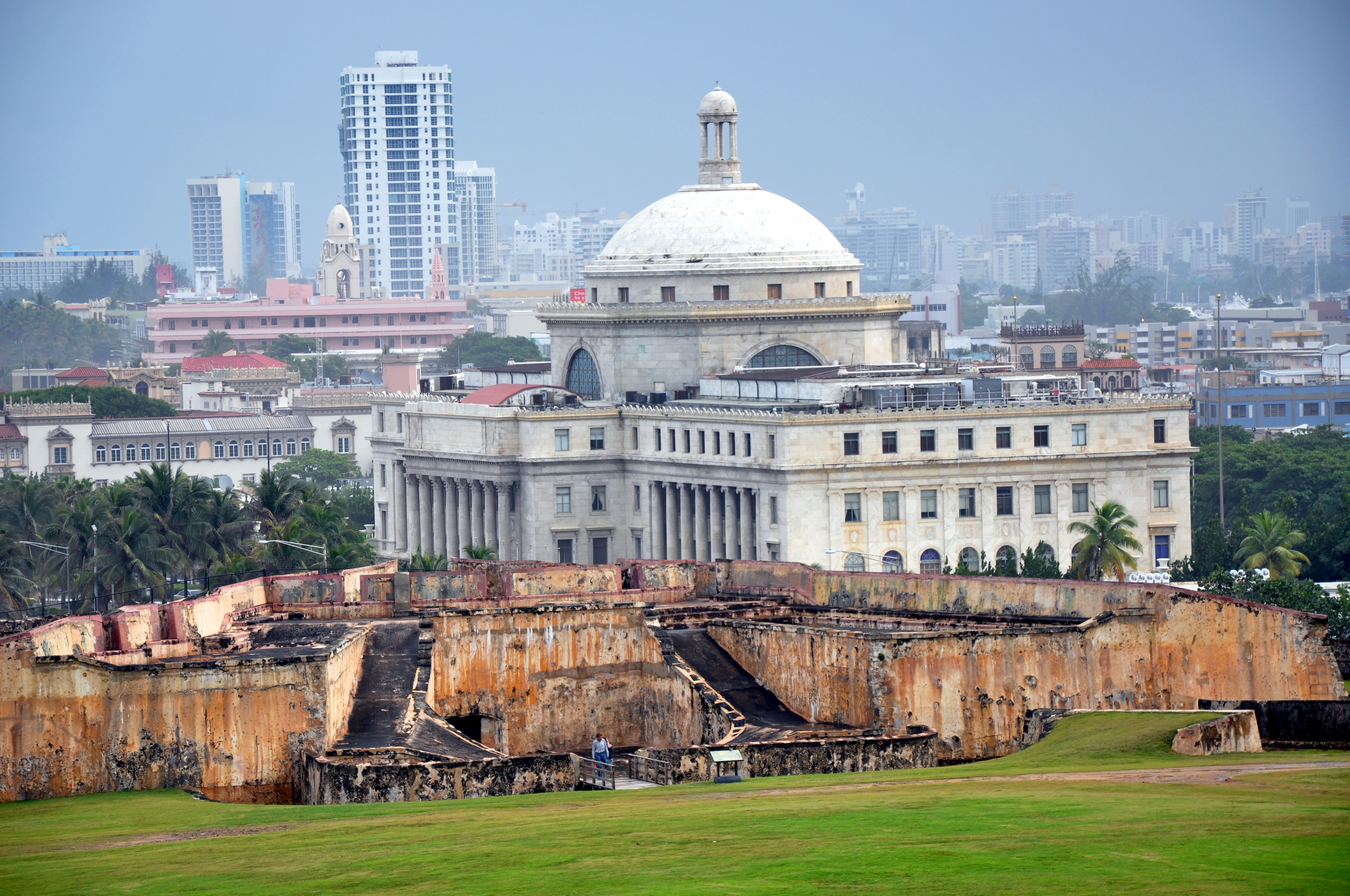 The Capitol of Puerto Rico (Spanish: Capitolio de Puerto Rico) is located on the Islet of San Juan just outside the walls of Old San Juan. The building is home to the bicameral Legislative Assembly, composed of the House of Representatives and Senate. The building is located in the Puerta de Tierra sector of San Juan. The Capitol is also commonly referred to as the Palace of Laws (Spanish: Palacio de las Leyes).